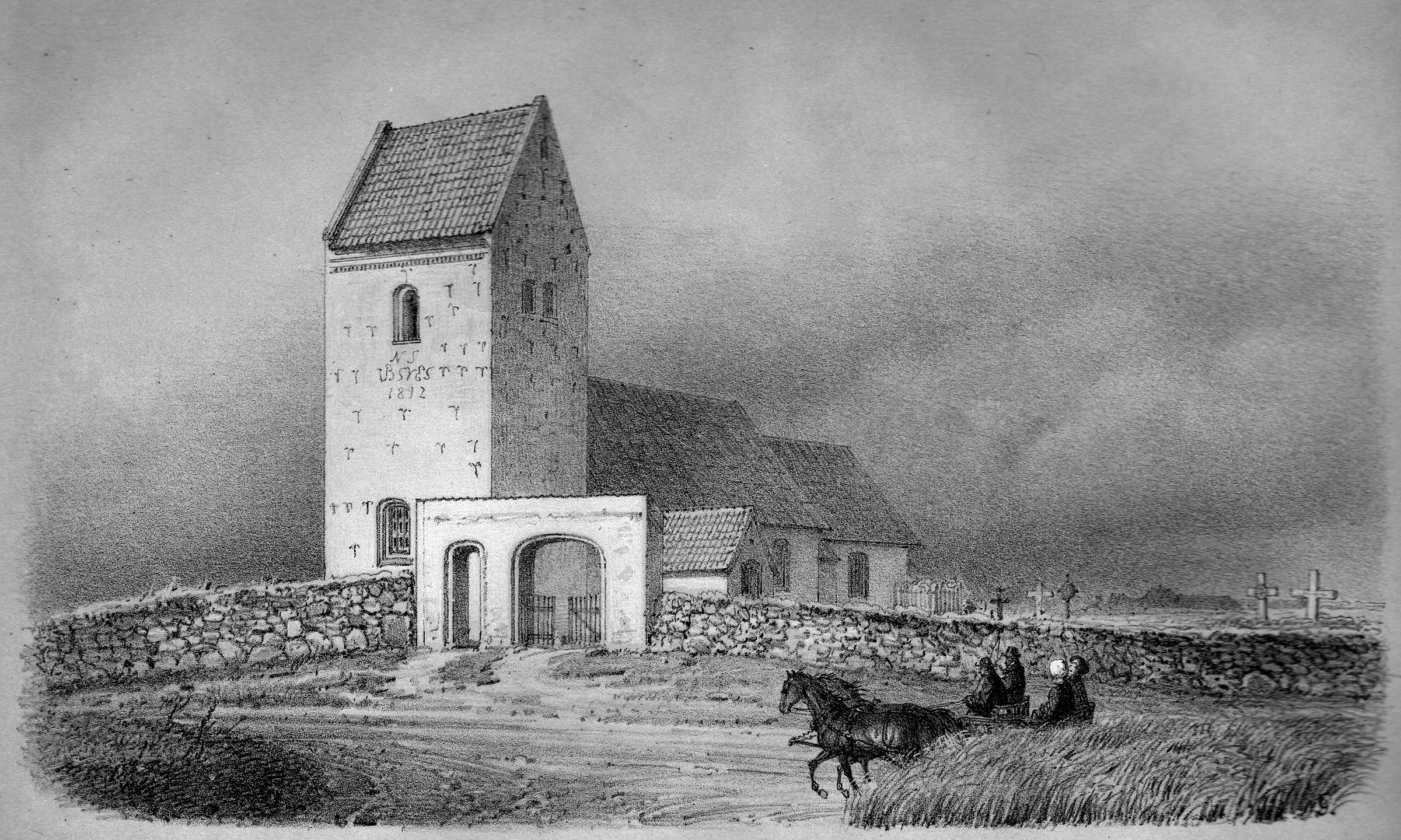 Scanned by myself from a copy of the old book in 2007. The book was graciously lent to me by Det Kongelige Garnisonsbibliotek.